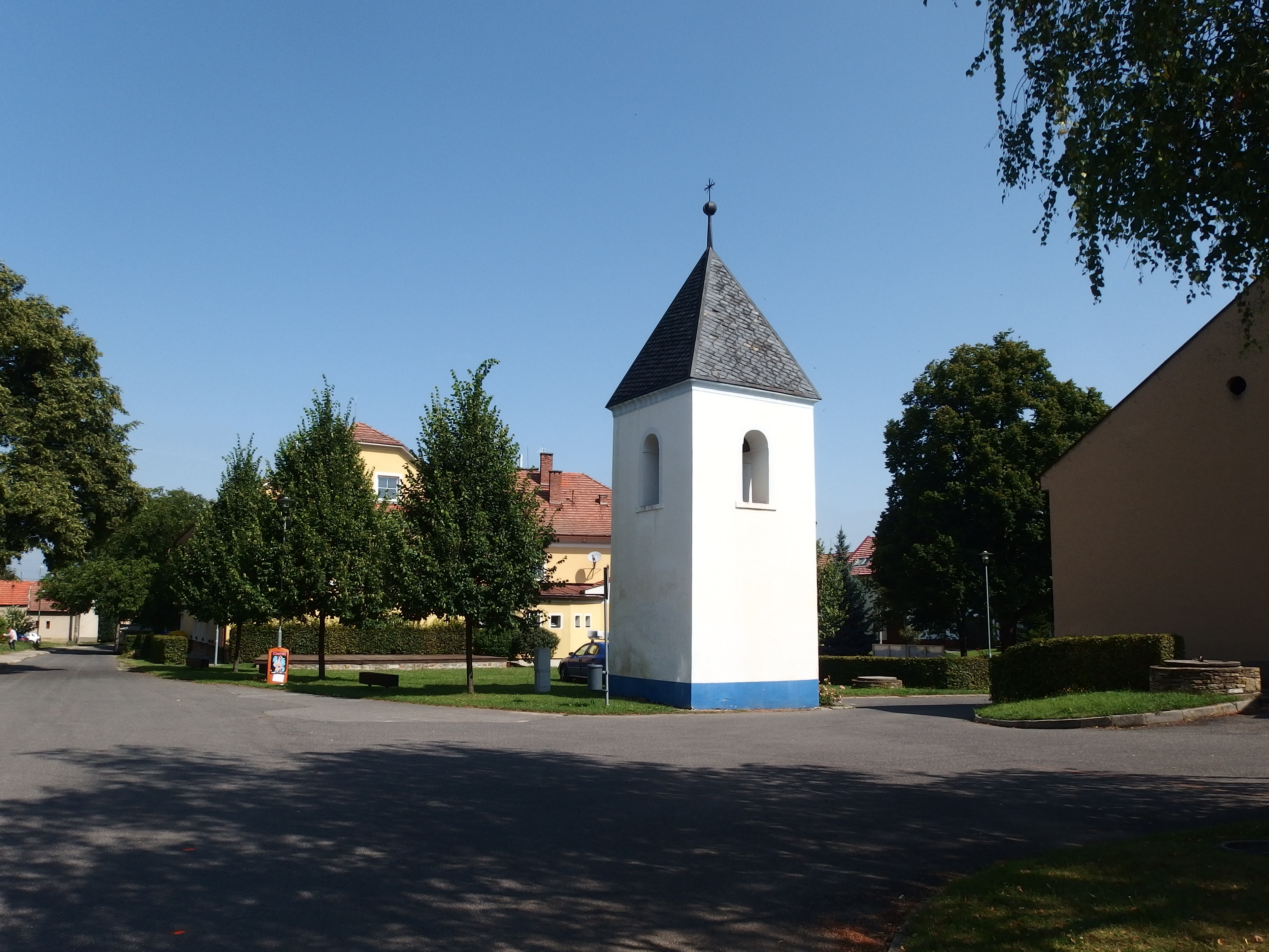 Hrubá Vrbka, Hodonín District, Czechia.